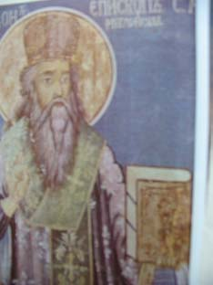 Hilarion of Moglena Fresco in Arapovo Monastery